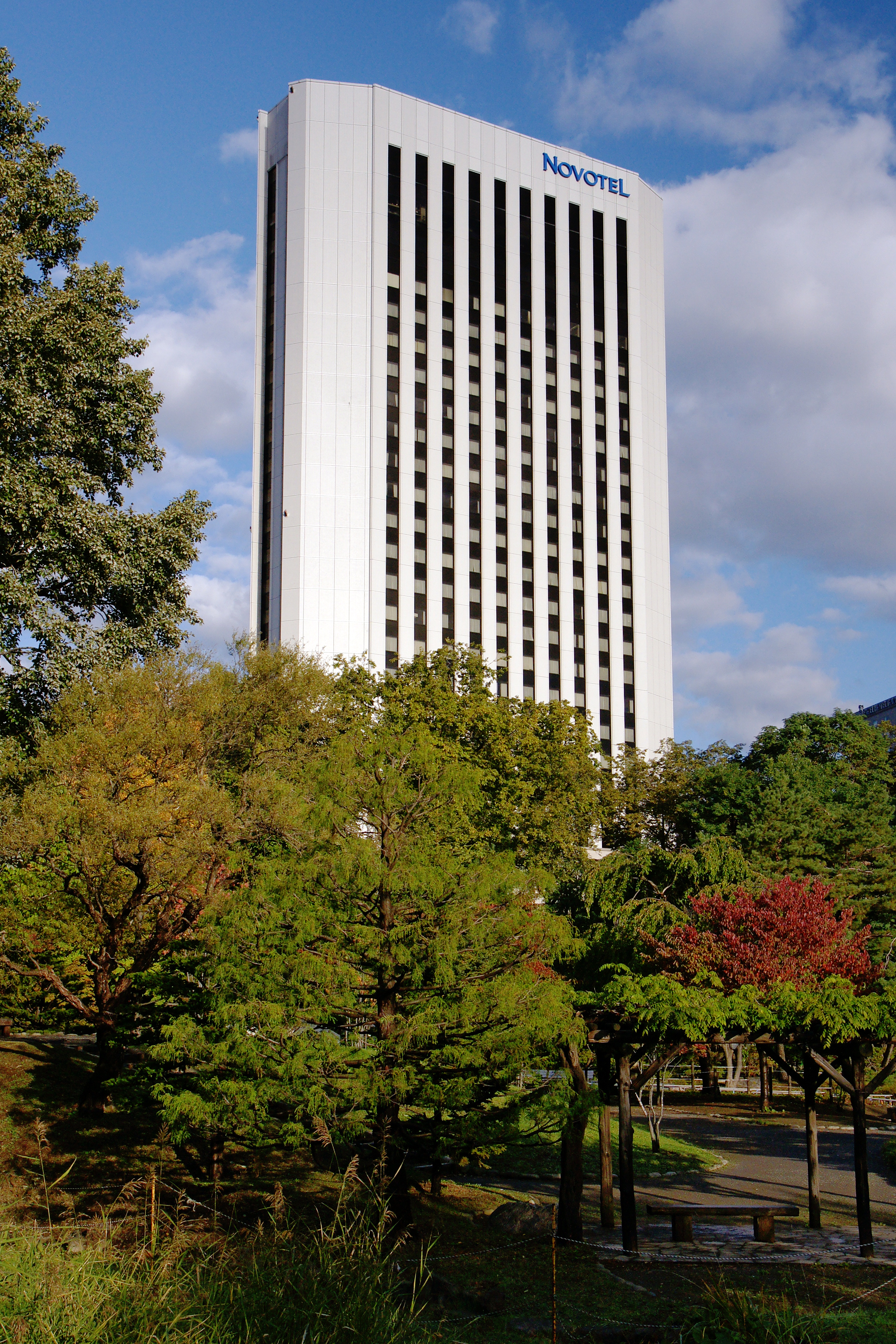 Novotel view from Nakajima Park in Sapporo, Hokkaido prefecture, Japan, on early morning of autumn.